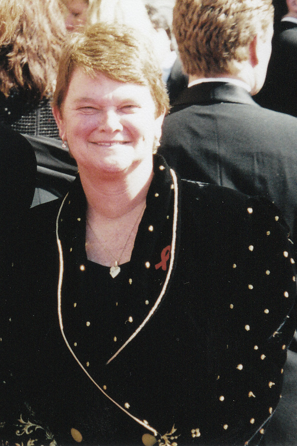 1999 Emmy Awards NOTE: Permission granted to copy, publish, broadcast or post any of my photos, but please credit "photo by Alan Light" if you can. Thanks.